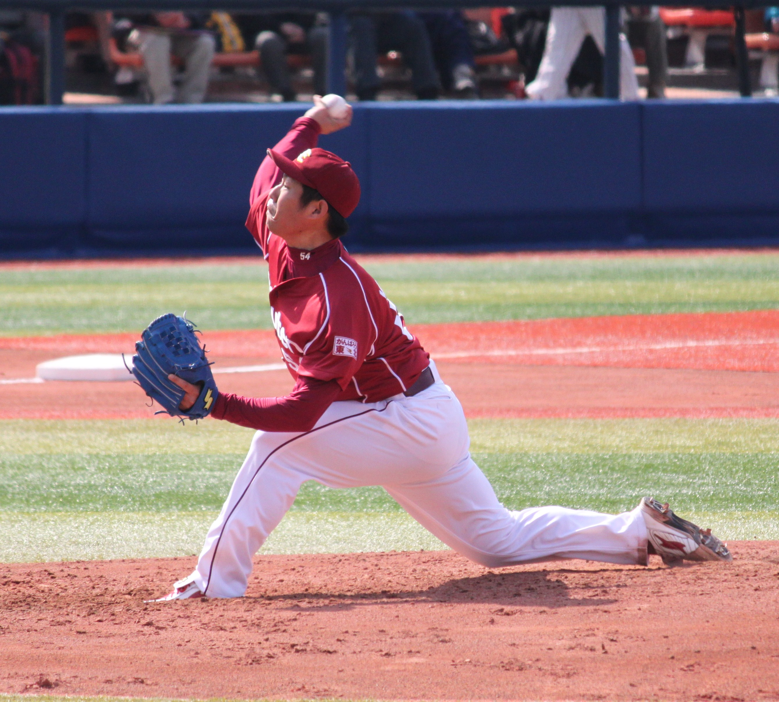 Daisuke Kato, pitcher of the Tohoku Rakuten Golden Eagles, at Yokohama Stadium.